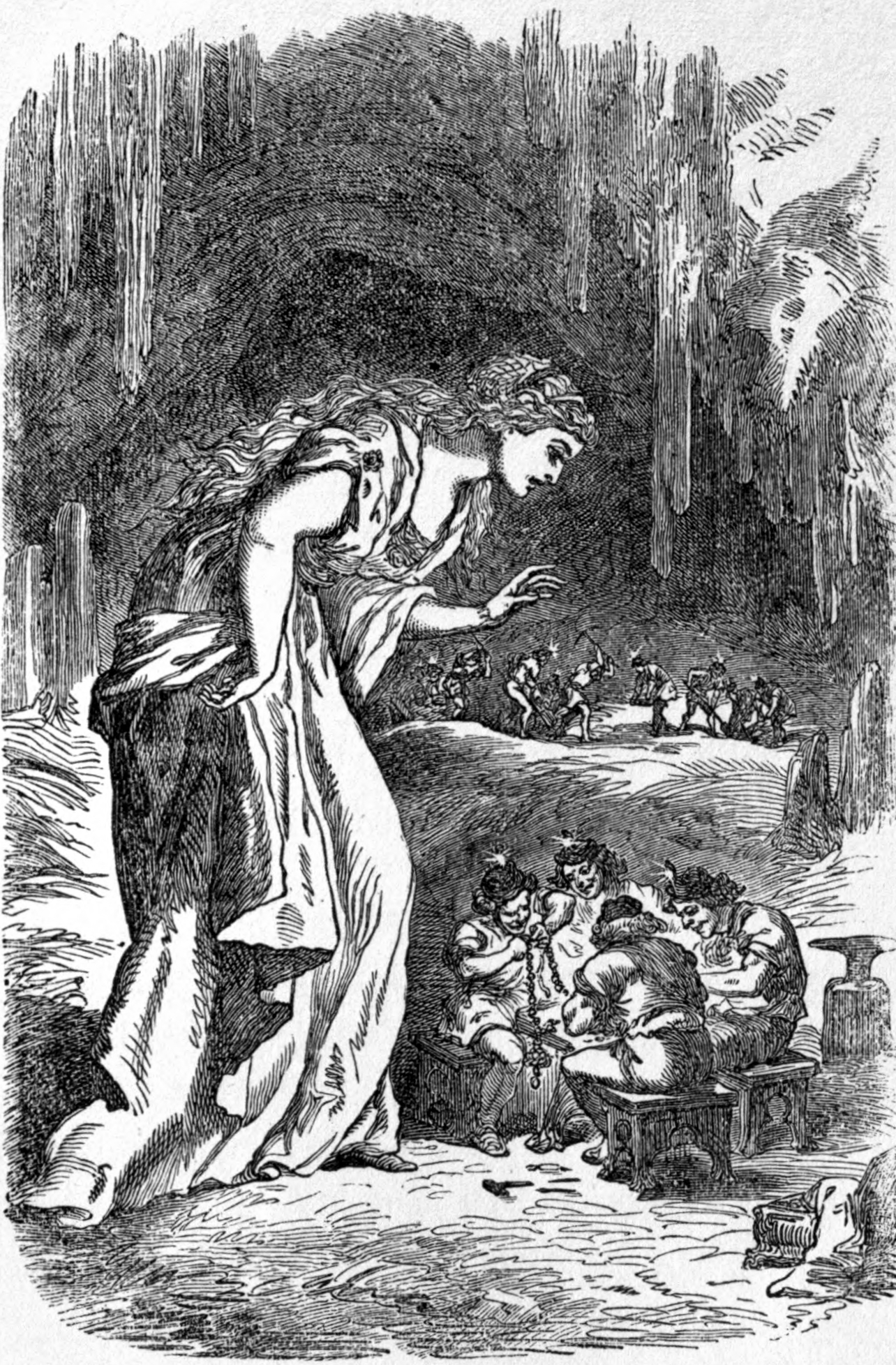 Freyja in the dwarfs' cave (the title given to this illustration in the book)